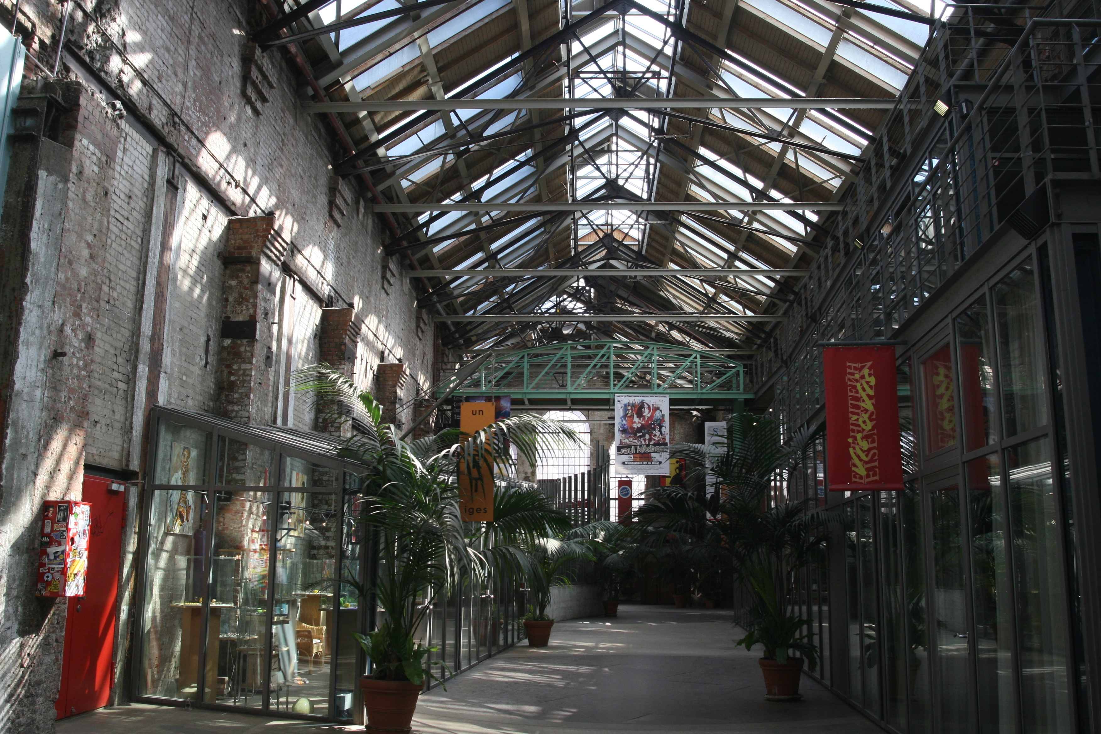 Inside picture of Zeise building in Hamburg-Ottensen, Hamburg